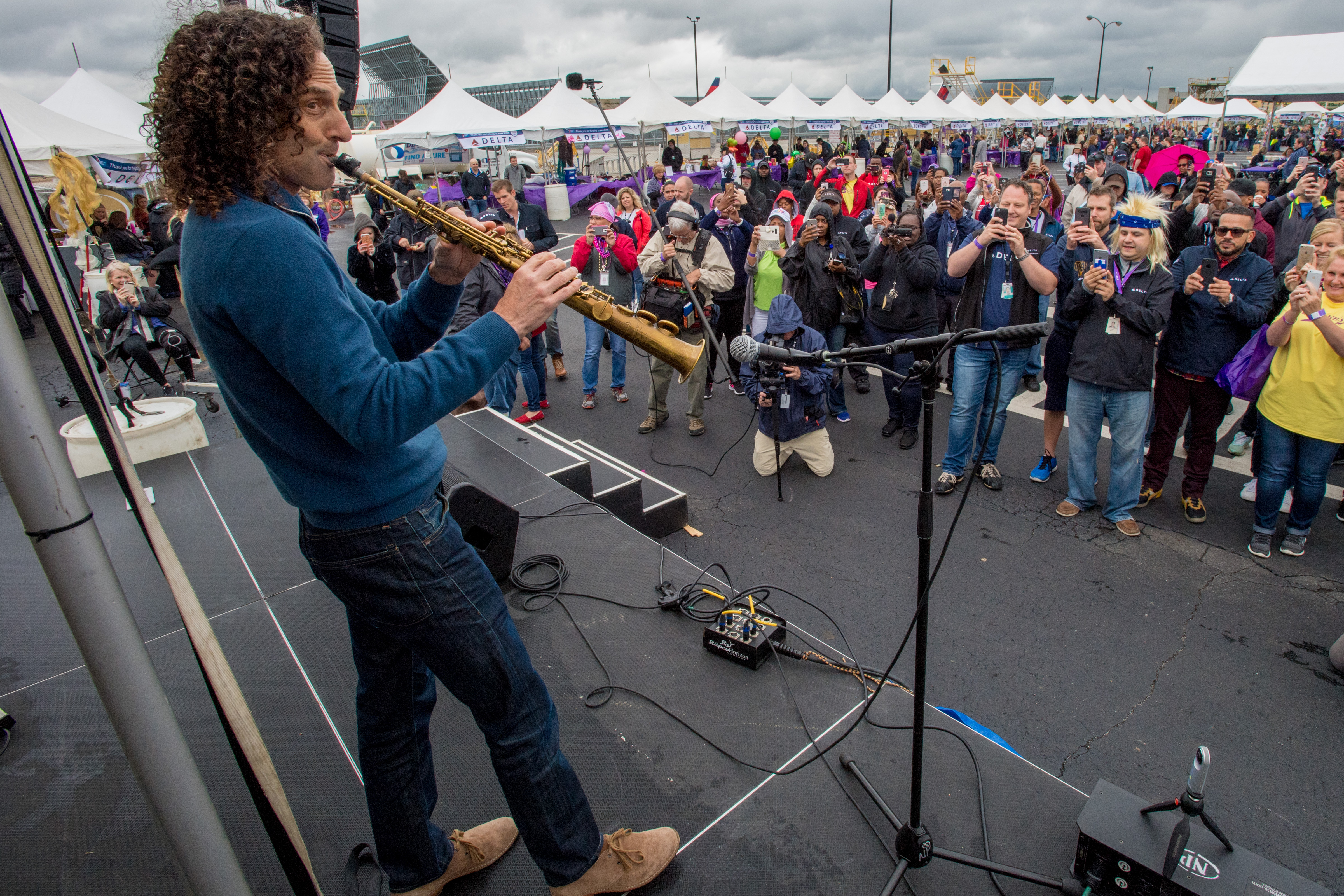 Kenny G plays during Luminaria Ceremony at Relay For Life